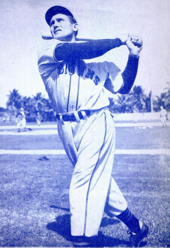 An image of Major League Baseball first baseman Jerry Witte.